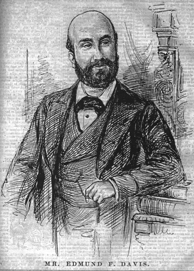 Edmud Davis, Thanet Figaro, 7th July 1877.